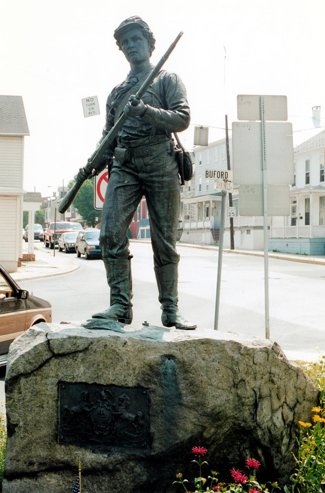 26th PA Infantry Monument, Gettysburg, PA, USA, ca, 1890s